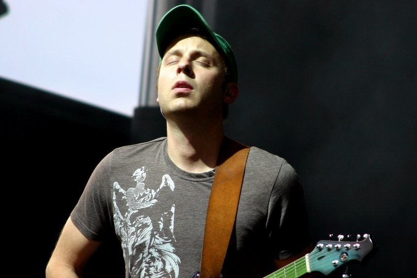 Jake Cinninger of Umphrey's McGee performing at Summer Camp Music Festival, May 23, 2009